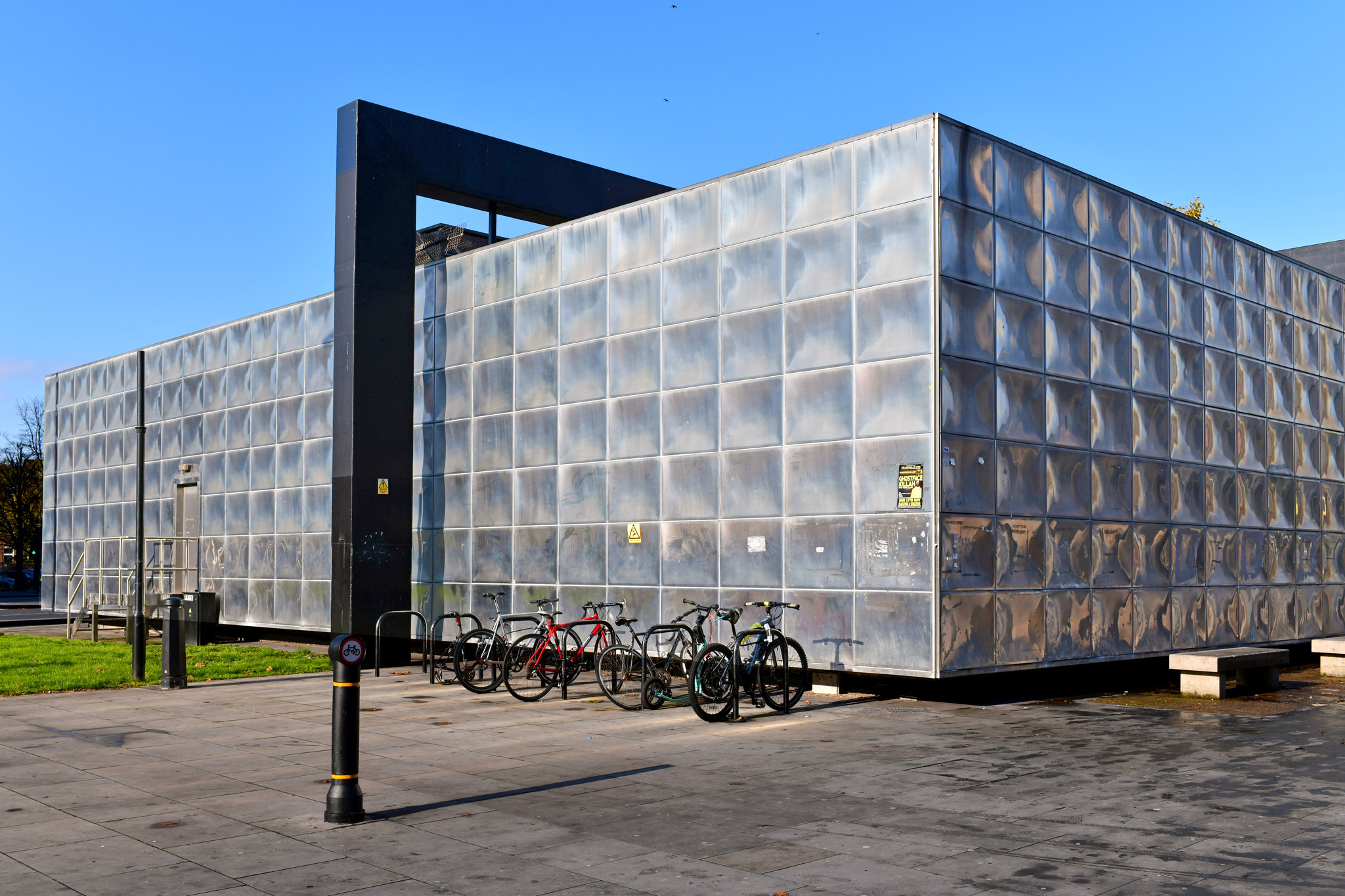 Grade II listed sculpture completed 1961, designed by the celebrated Brutalist architect Rodney Gordon (1933-2008). Clad with stainless-steel dished panels and appearing to be suspended from a core yoke, alluding to Michael Faraday's discoveries in electromagnetic induction. Appropriately, the sculpture actually does house a transformer for electrical supply to the Northern Line. Elephant & Castle, London Borough of Southwark. ( CC BY-SA - credit: Images George Rex.)